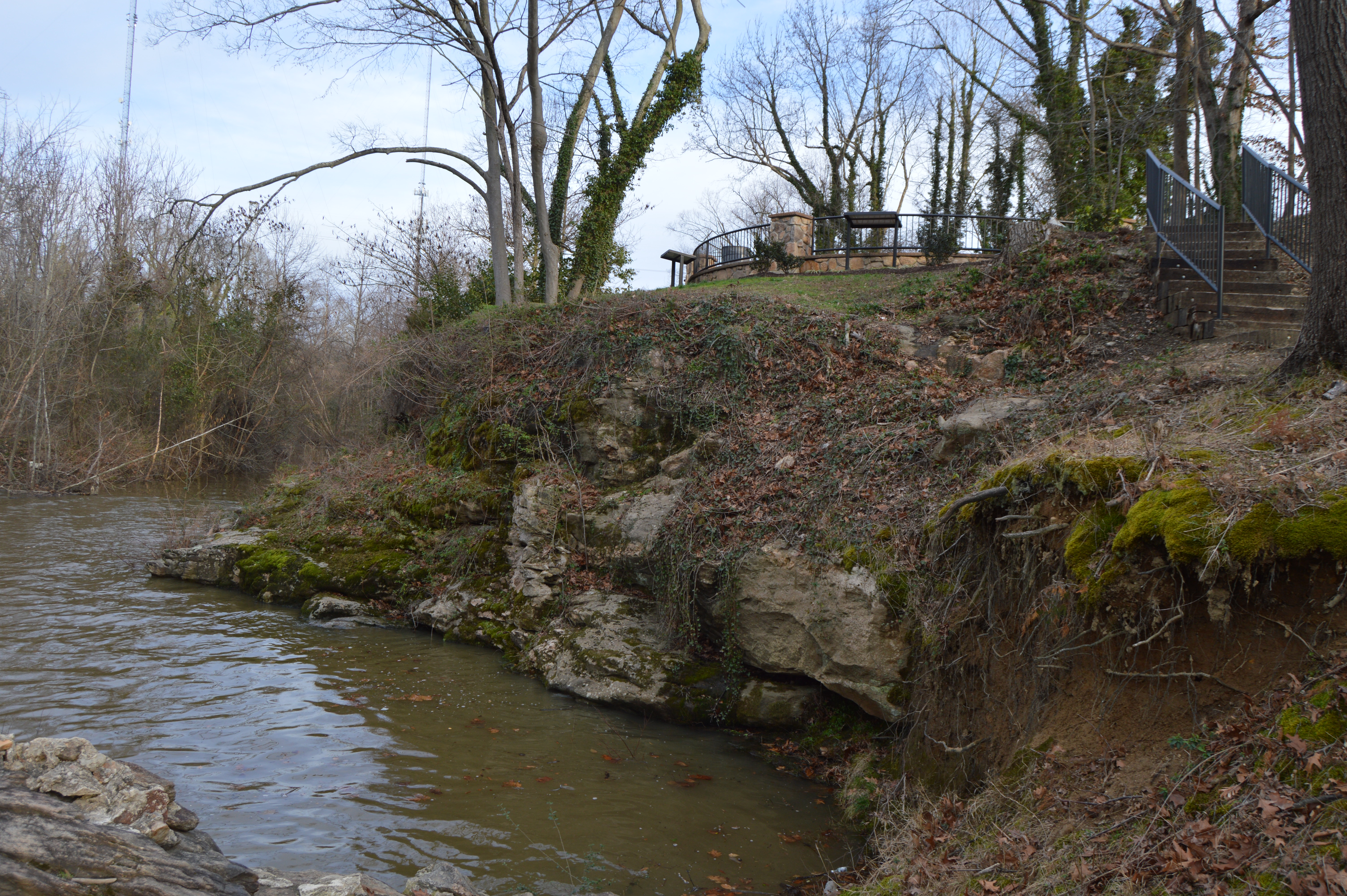 Part of the site of the Falling Creek Ironworks, located along Falling Creek just south of the Richmond city limits in Chesterfield County, Virginia, United States. Established in 1619, the ironworks were the first industrial facility in what is now the United States, but they only functioned for three years before their destruction in the Indian massacre of 1622. The site is now an important archaeological site and has been listed on the National Register of Historic Places.